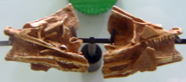 Juvenile Byronosaurus skull (IGM 100/972) found in an Oviraptor nest.